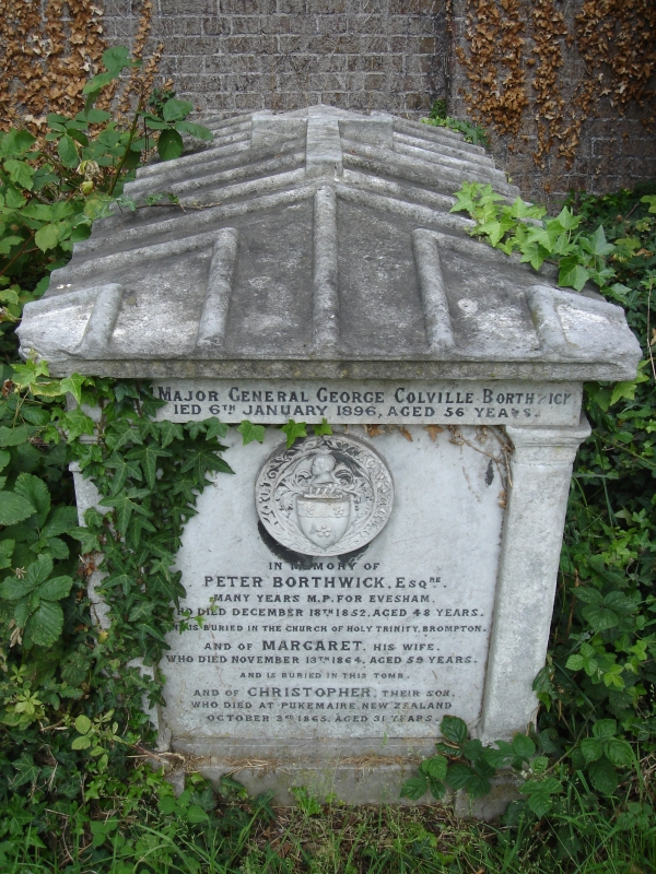 Tomb of Peter Borthwick and family, Brompton Cemetery.